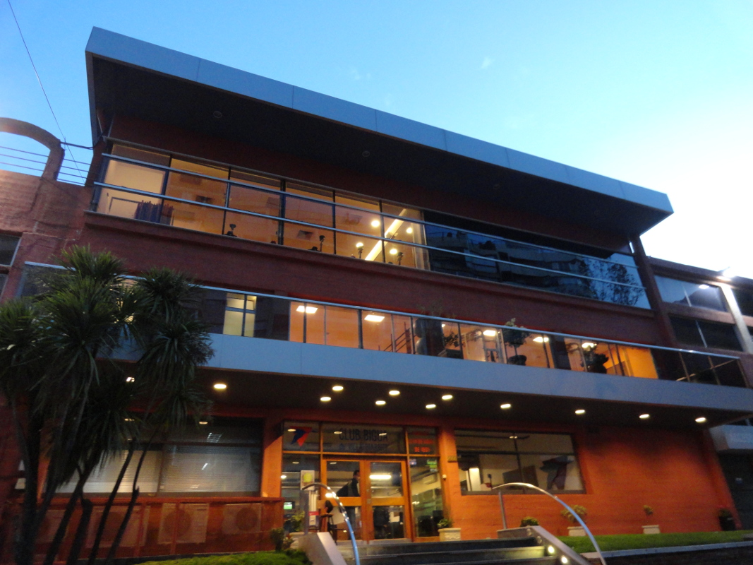 East entrance of the Club Biguá de Villa Biarritz, located in Montevideo, Uruguay.